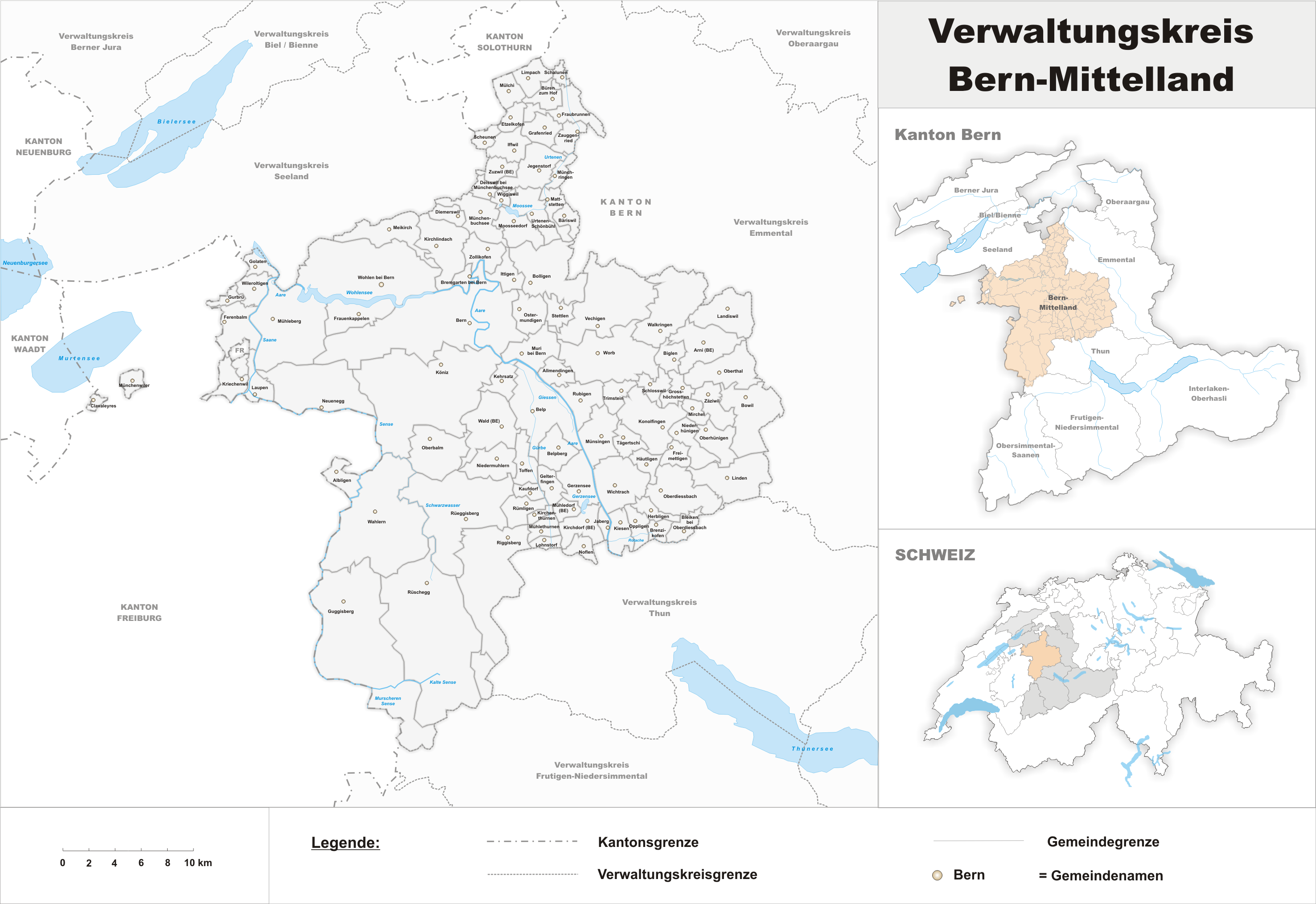 Municipalities in the district of Bern-Mittelland